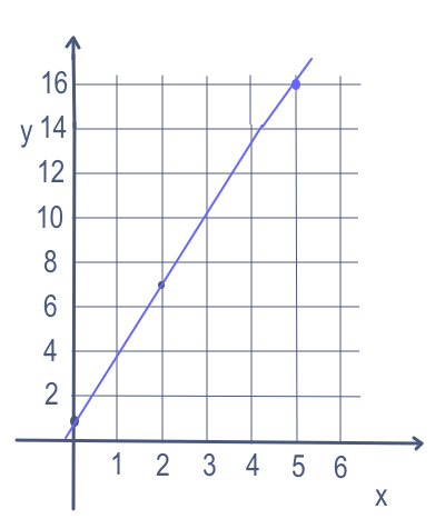 Linear equation for y=3x+1